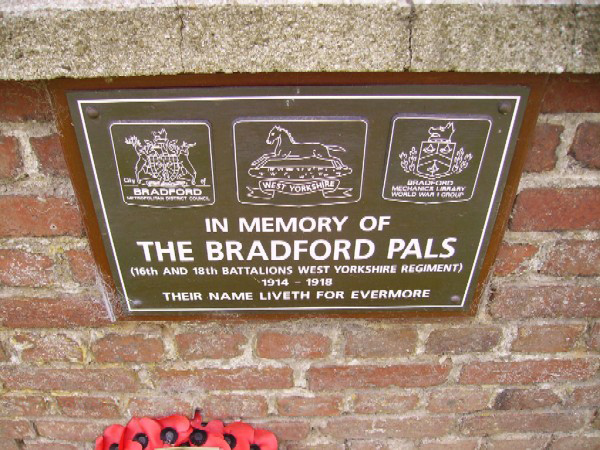 Memorial to Bradford Pals in Hebuterne France